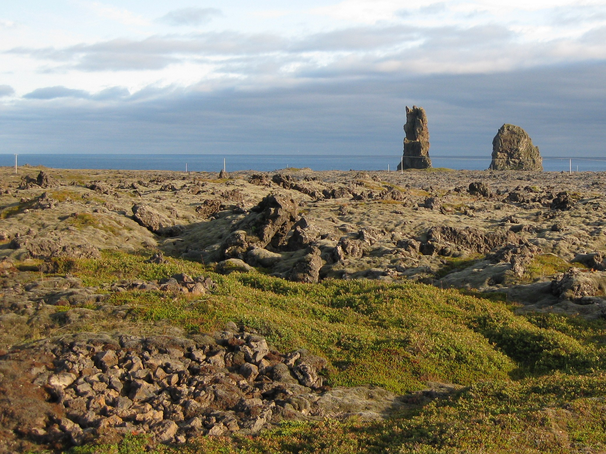 Lóndrangar, remnants of an ancient basalt cylinder-cone by the ocean in Snæfellsnes , Iceland. View from the road. Photo by Salvor Gissurardottir in August 2008